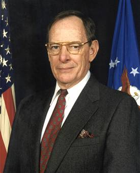 Retired Major General Charles D. Metcalf, Director of the National Museum of the United States Air Force